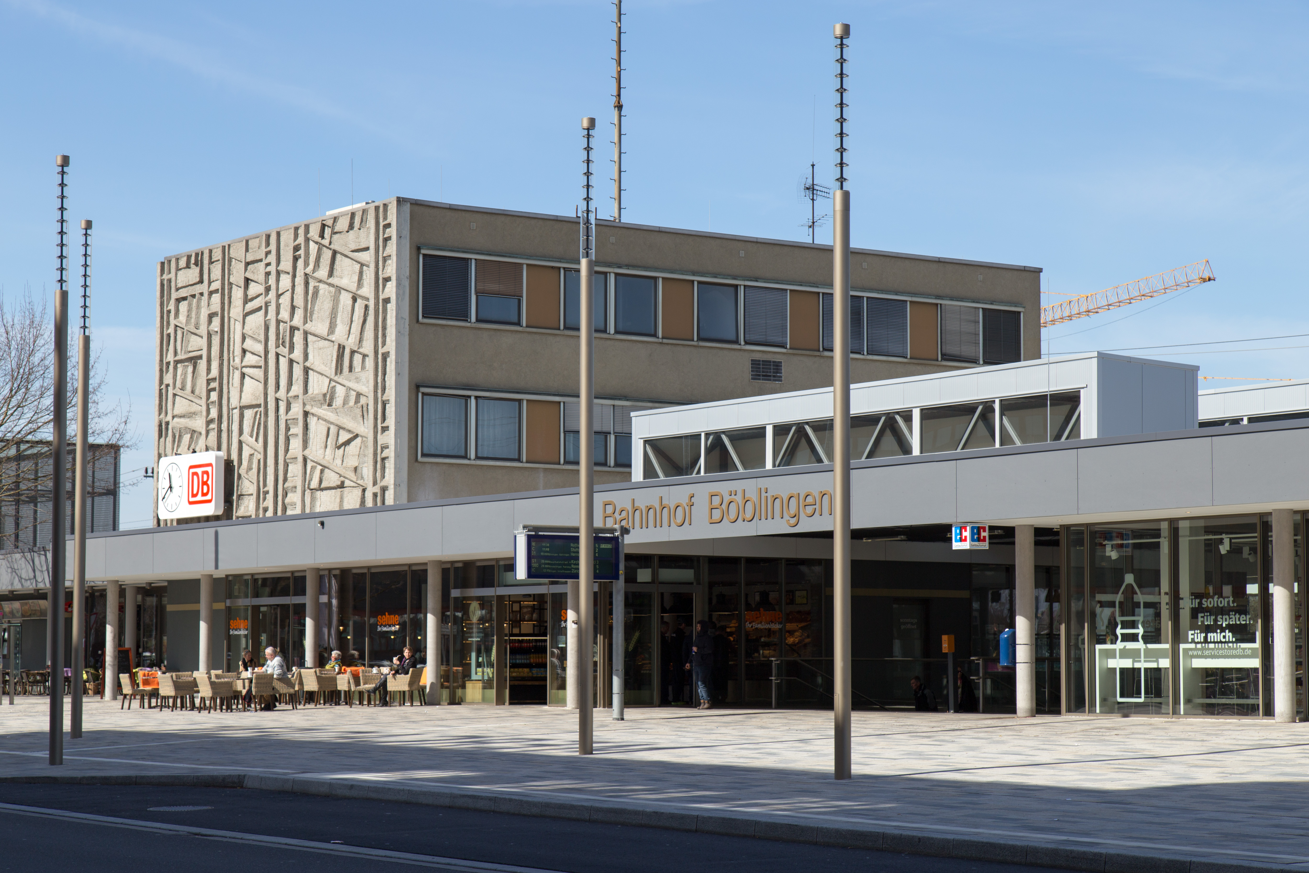 Train station in Böblingen